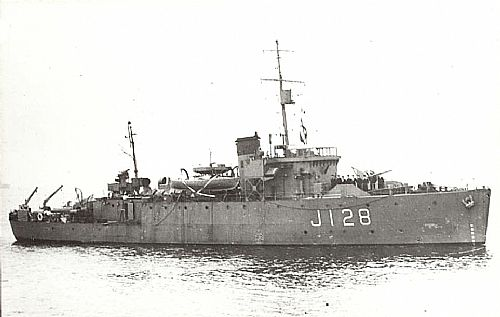 HMS Cromer (J128)-Pre-1942 government photograph of now-sunken vessel